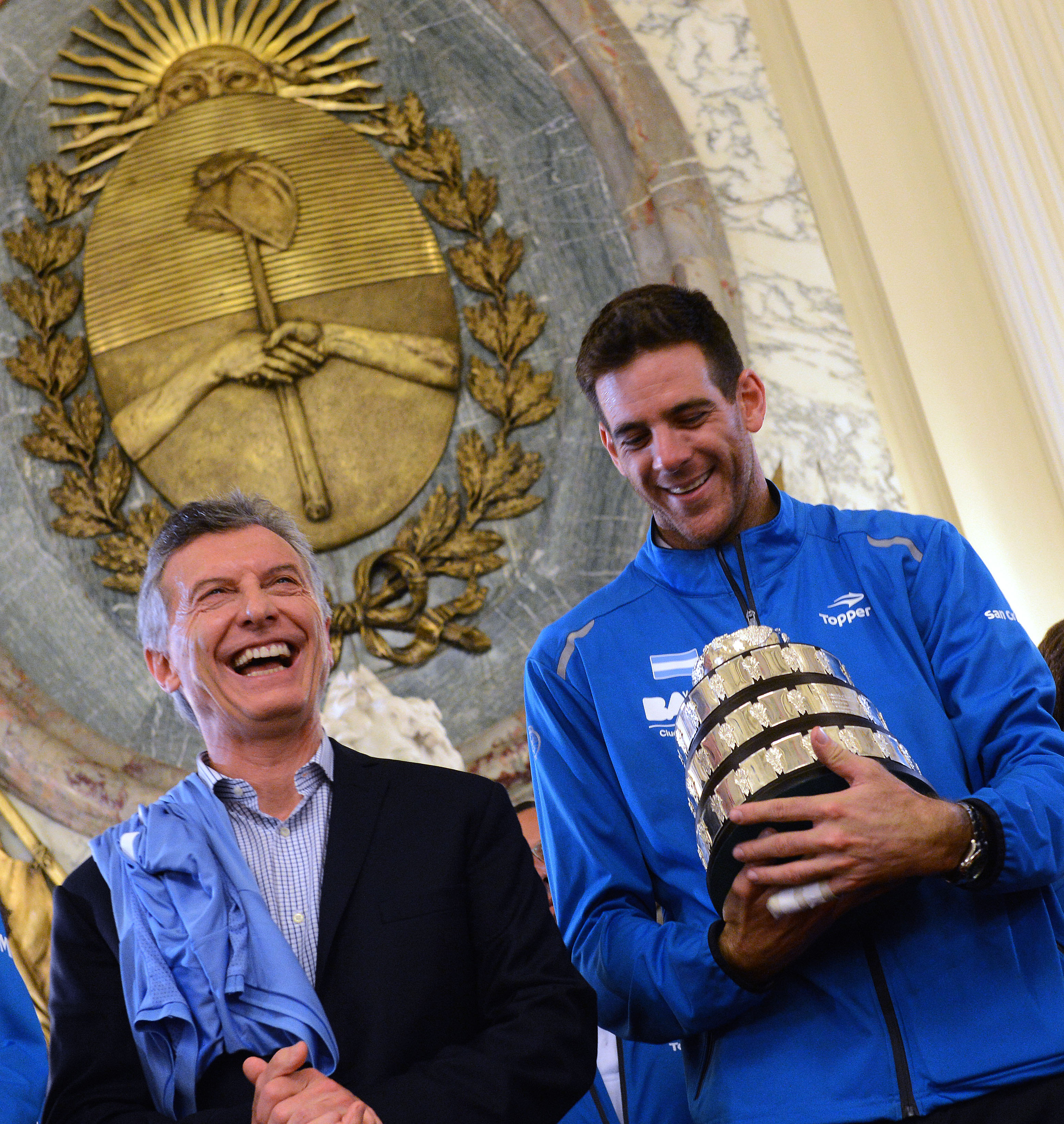 President of Argentina, Mauricio Macri, laughing with tennis player Juan Martín del Potro during their meeting at Casa Rosada, Buenos Aires.